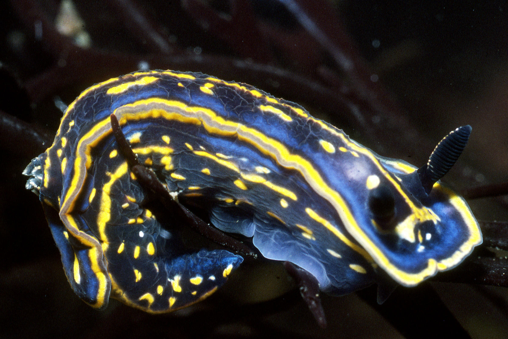 Sea slug Felimare cantabrica (Bouchet & Ortea, 1980) (synonym: Hypselodoris cantabrica)